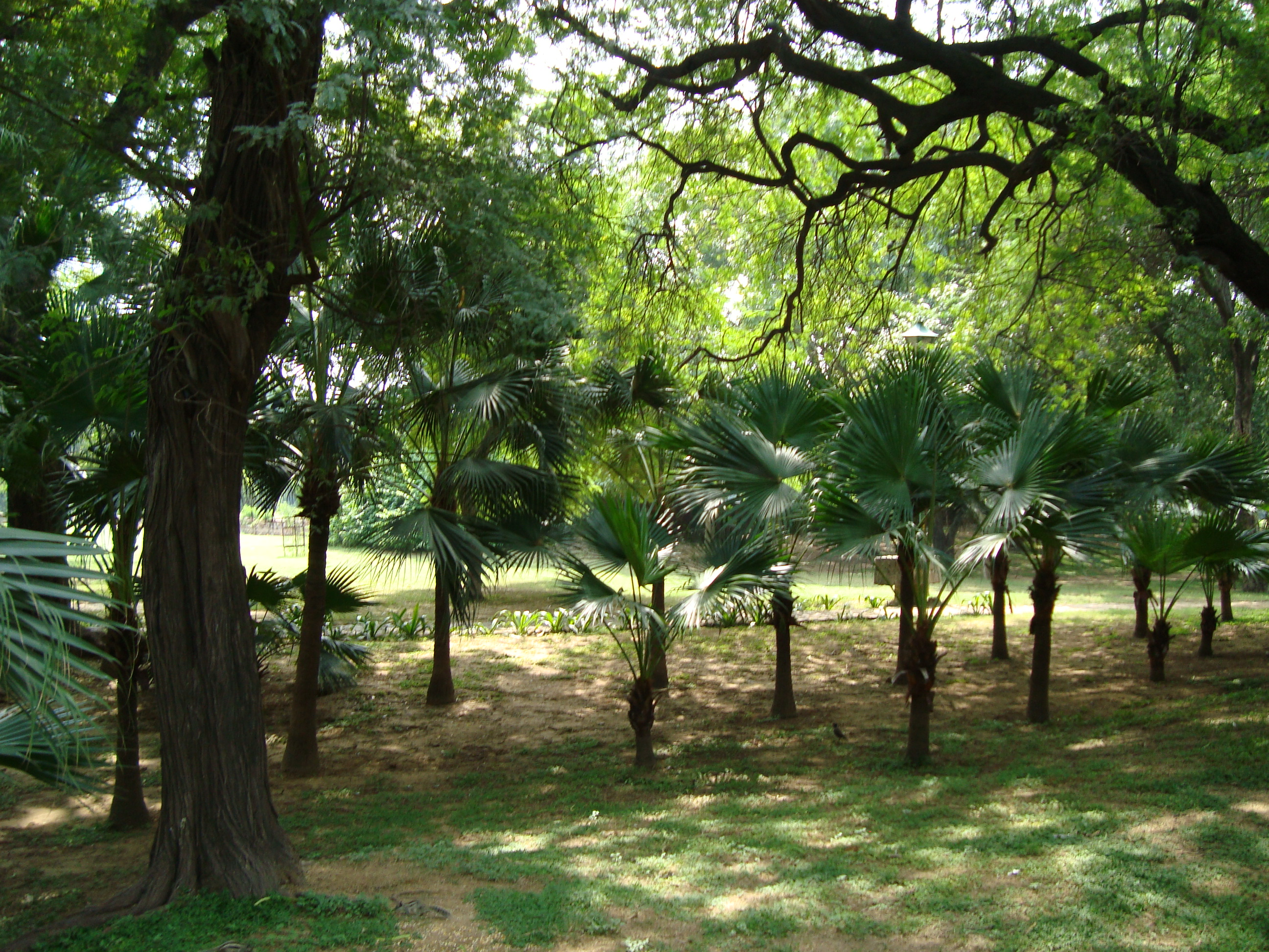 Trees in Lodi Gardens in Delhi, India